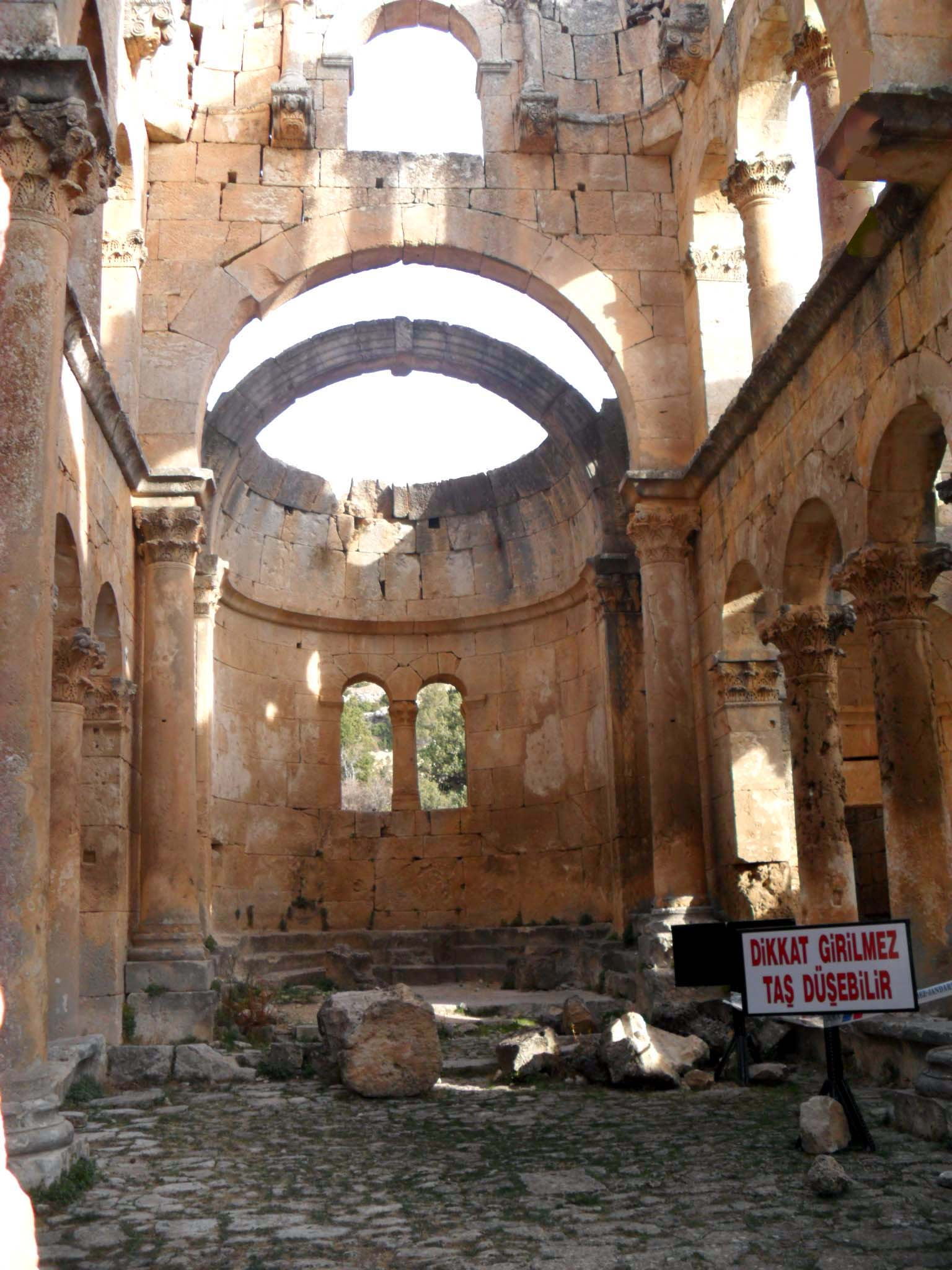 Alahan Monastery